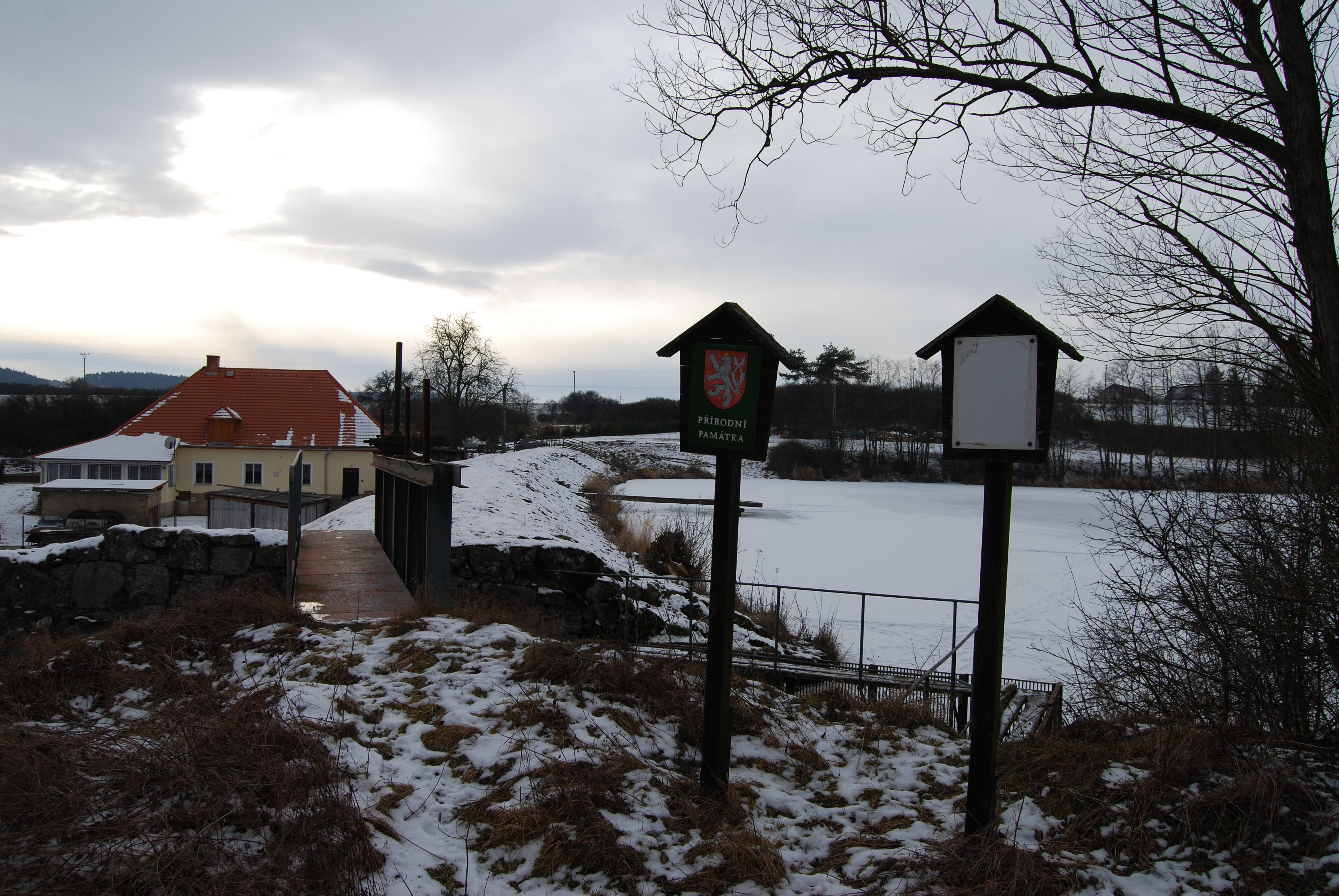 Natural monument Michovka near Drhovle village, Písek District, Czech Republic.